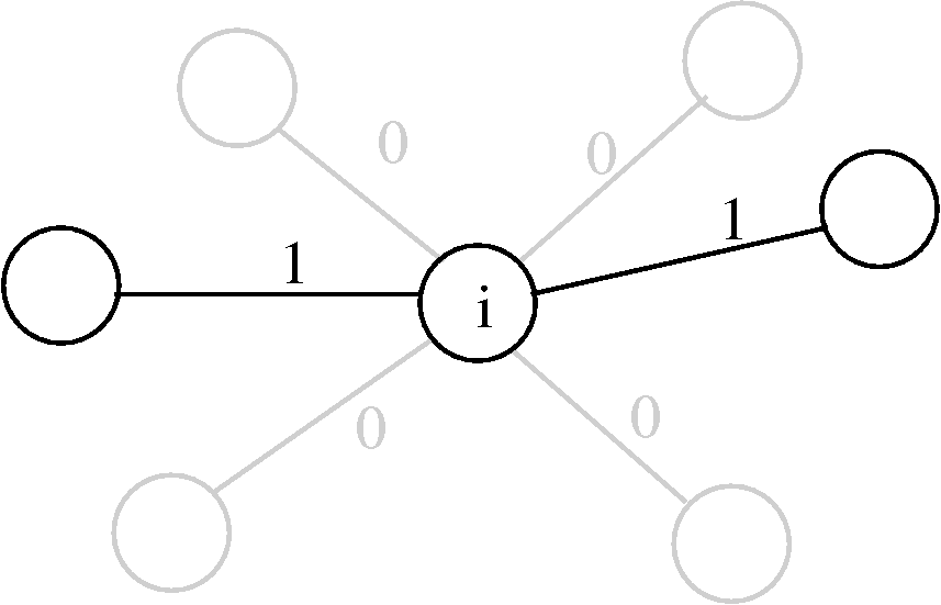 This figure illustrates the degree constraints of the Symmetric Traveling Salesman Problem: each node must have exactly one incoming and one outgoing link of the tour.